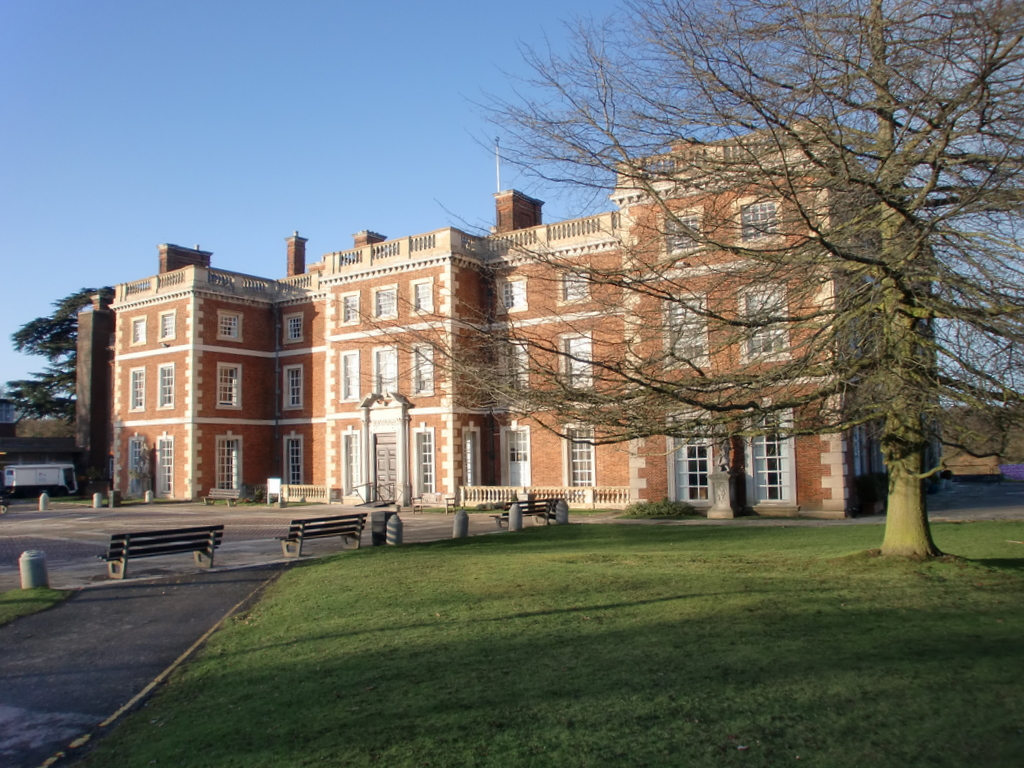 Trent Park House, London N14 Trent Park House is part of Middlesex University.